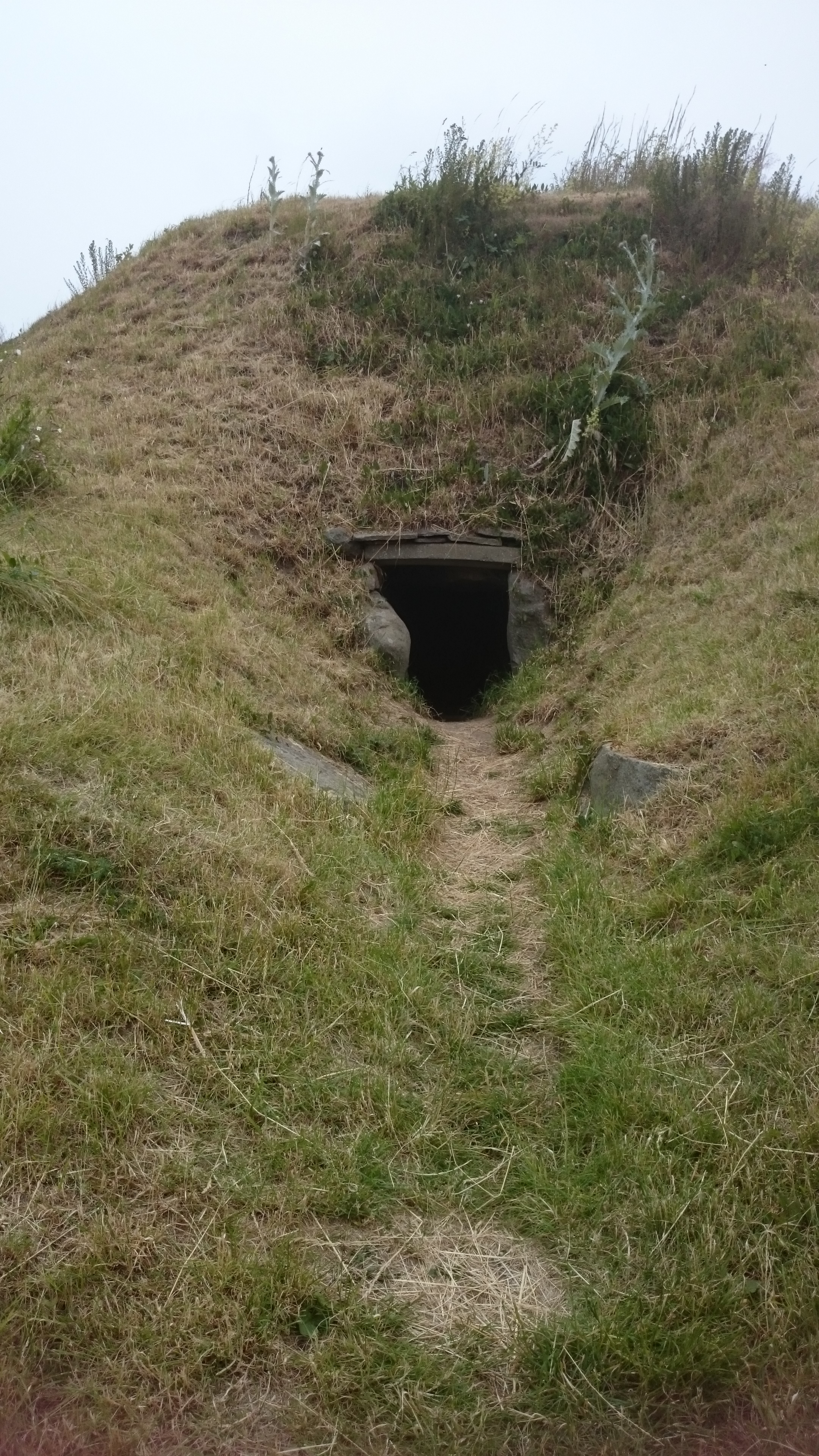 Tumuli in Denmark called Glentehøj. Near Kragenæs on north western Lolland.